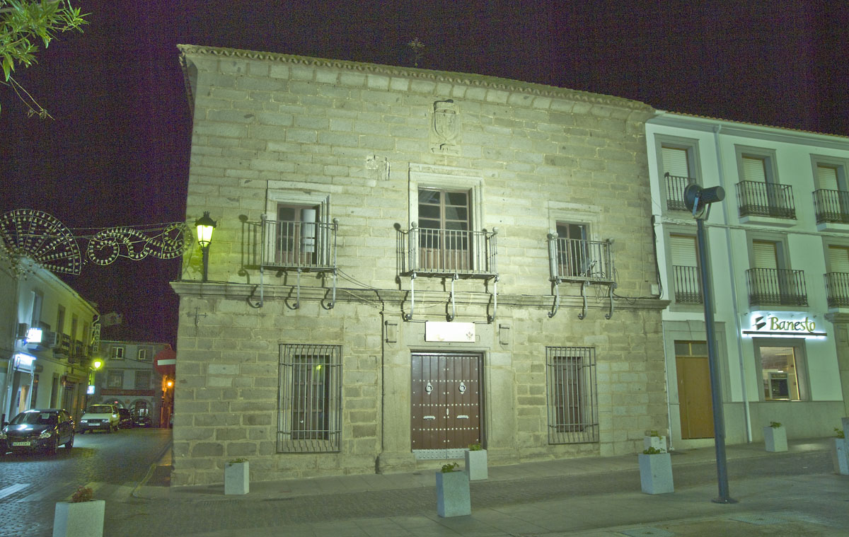 Old audience of Villanueva de Córdoba.